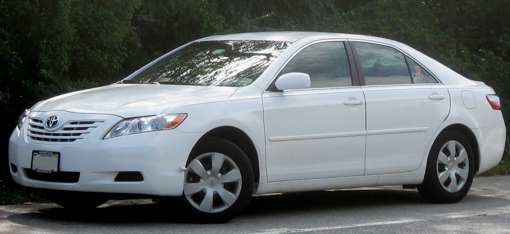 2007-2009 Toyota Camry photographed in College Park, Maryland, USA.